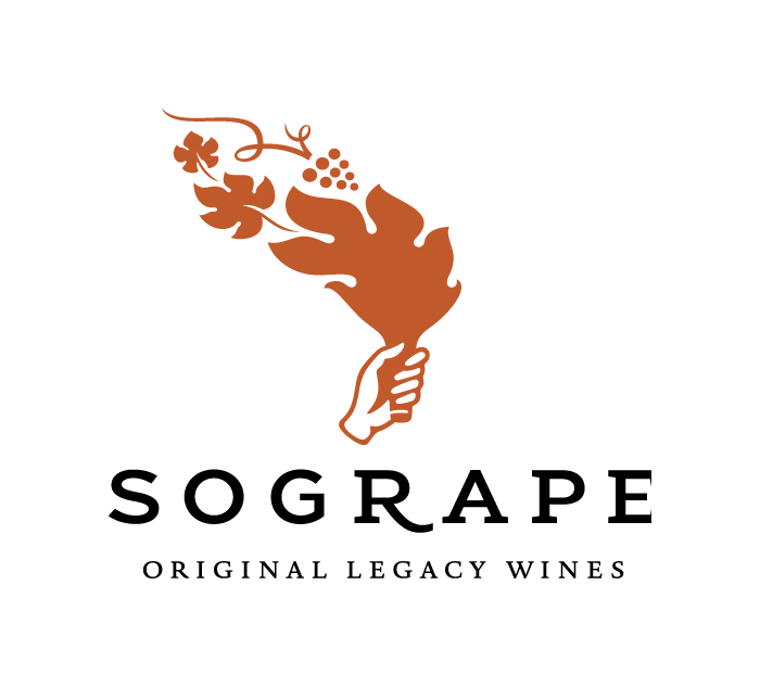 Logo Sogrape Original Legacy Wines